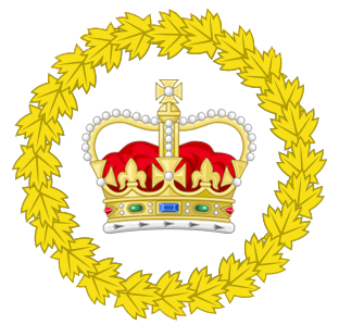 St Edward's Crown surrounded by wreath of maple leaves. Not an official insignia: This sign or flag should not be considered official. It is just a proposal of an artist (drawer), and it is not in any official use.